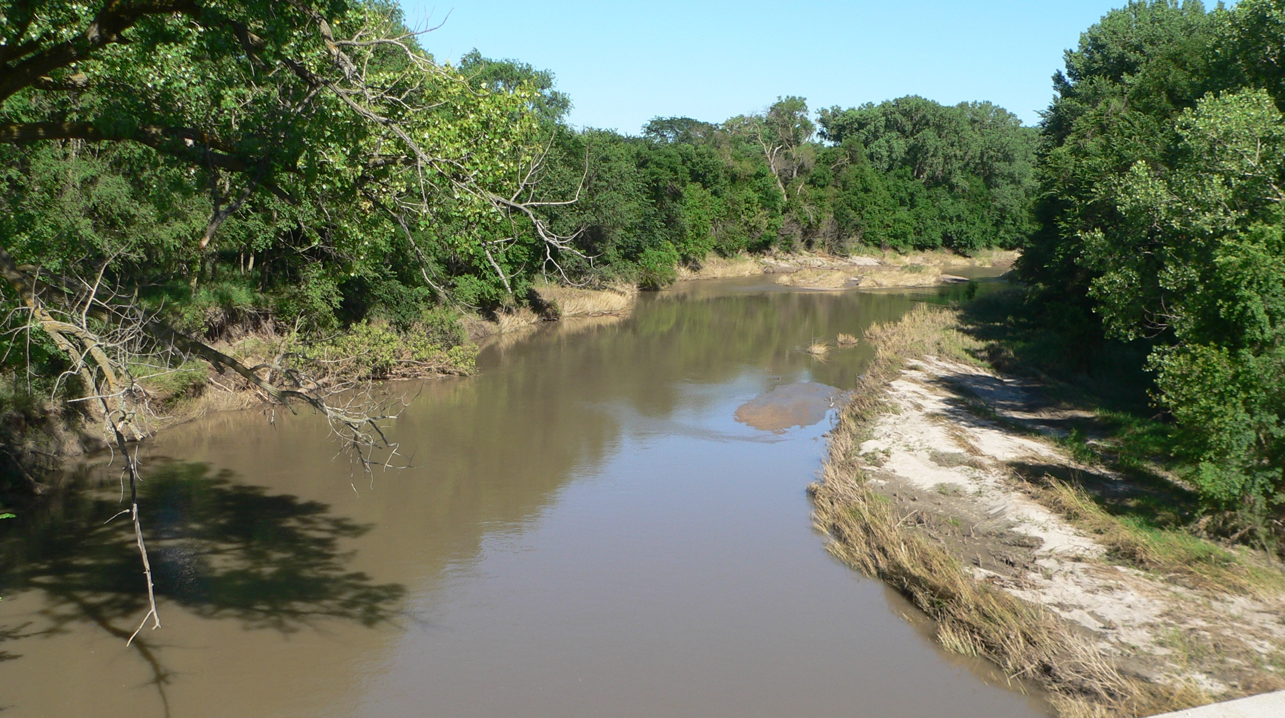 Little Blue River at Oak Mill, southeast of Oak, Nebraska; looking east (downstream).